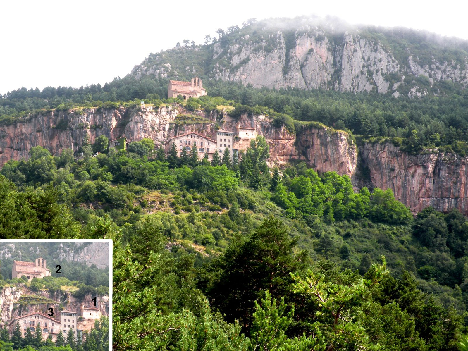 Montgrony: Santa Maria and Sant Pere